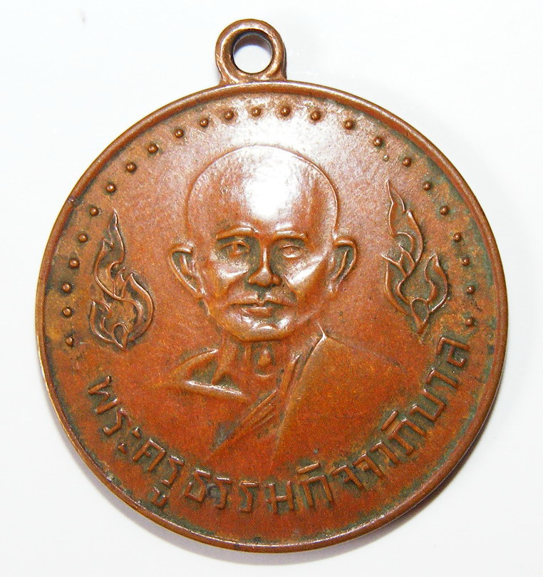 (amulet of Phrakhru Thamma Kitcha Phi Ban ( Klom )) past Buddhist temple abbot of Wat Doi Tha Sao , Mueang Uttaradit, Uttaradit Province, Thailand.